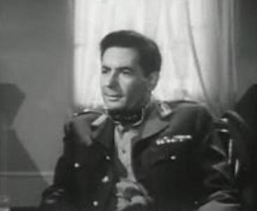 Cropped screenshot of Leo Genn from the trailer for the film The Miniver Story